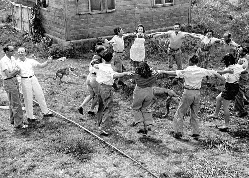 TLAMIM, Settlements in Israel